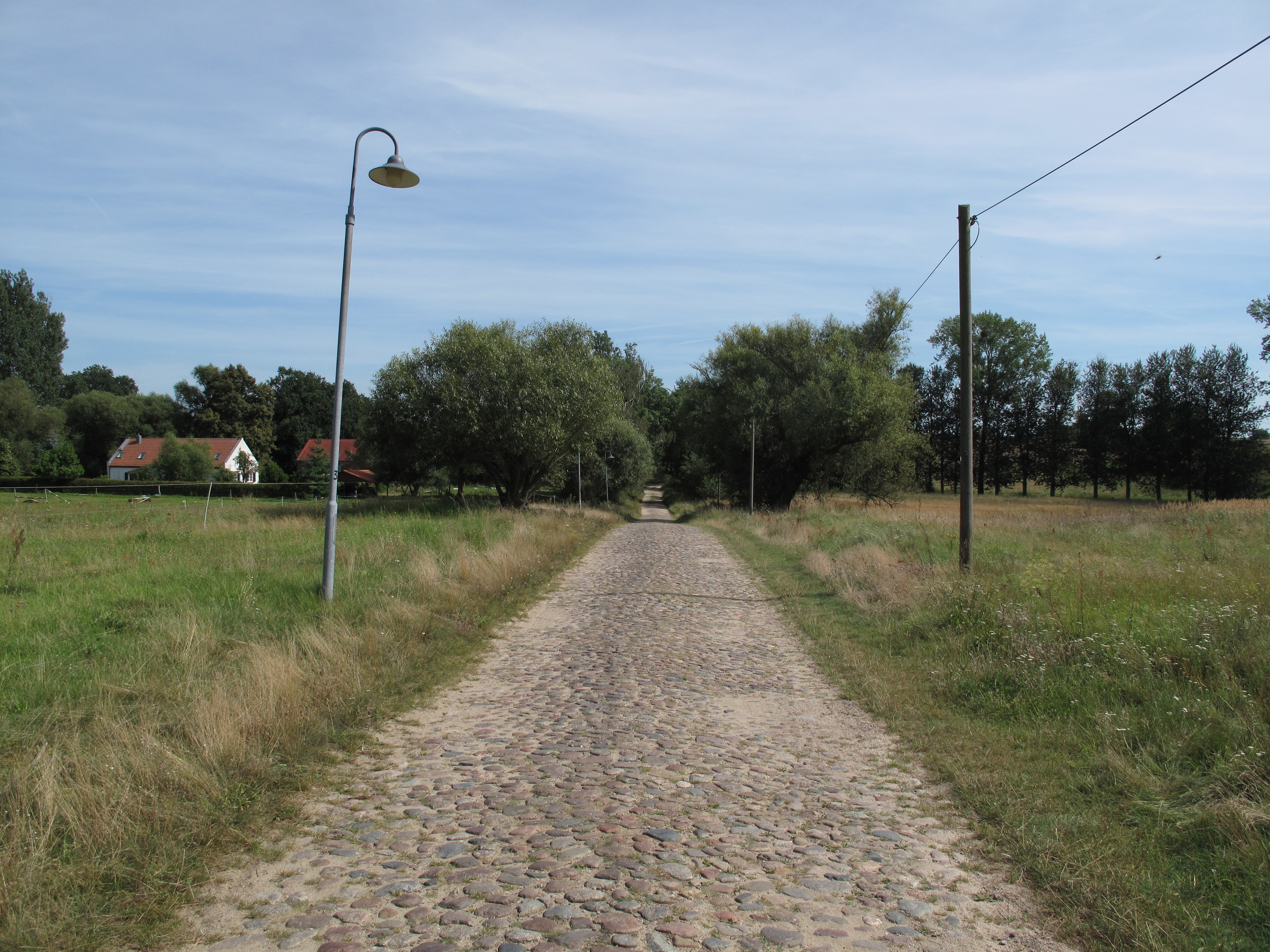 Fieldstone road in Grunow. The village Grunow is a civil parish (Ortsteil) of the municipality Oberbarnim in the District Märkisch-Oderland, Brandenburg, Germany. Grunow was first mentioned in written documents in 1315 and is situated on the Barnim Plateau in the Märkische Schweiz Nature Park. In 2010 the village had about 350 inhabitants (incl. it’s part Ernsthof). Due to its fieldstone-Builsdings and –streets Grunow is a part of the Oberbarnimer Feldsteinroute, a 41,5 kilometers long walking and bike trail in the traces of the building material fieldstone.